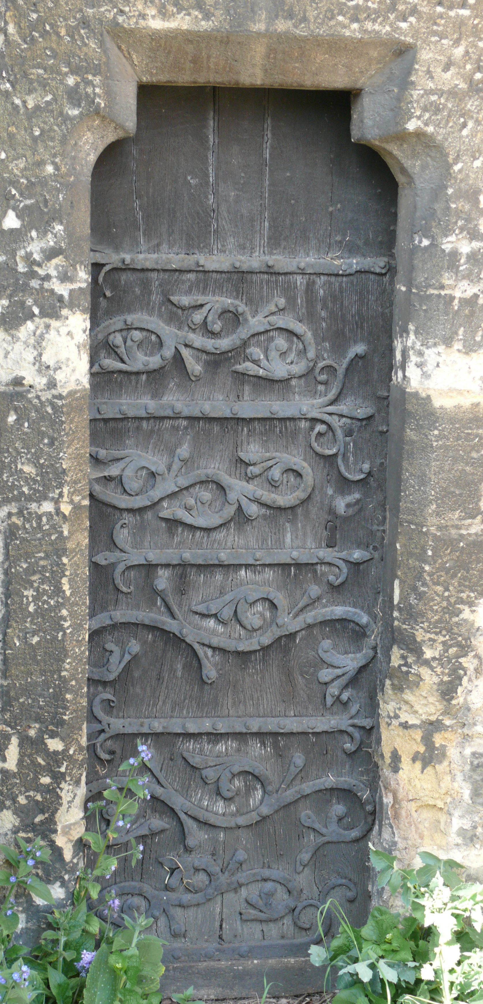 The thirteenth-century priests door in the south wall of St Thomas the Martyr's Church